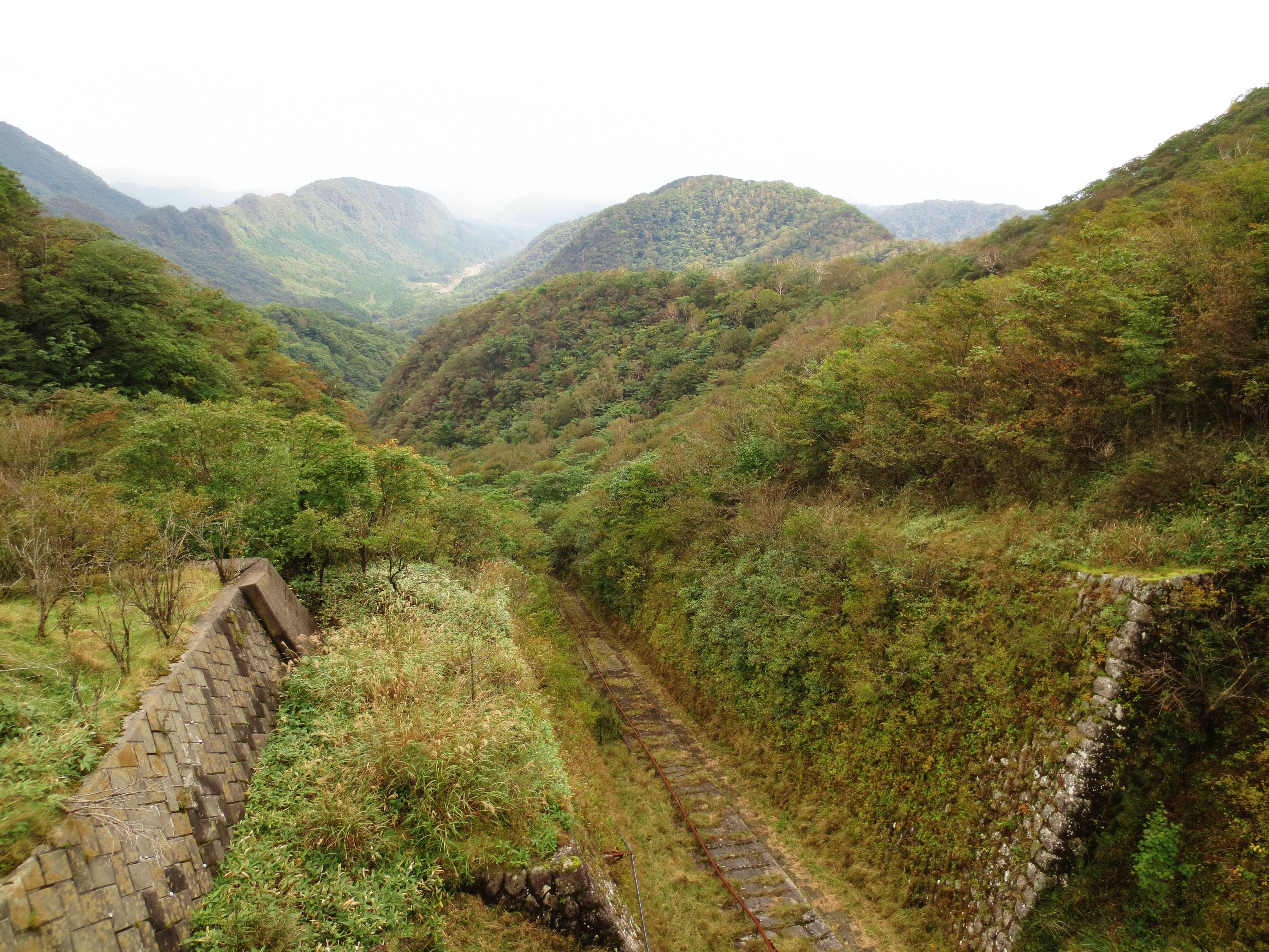 Akagi Tozan Railway.